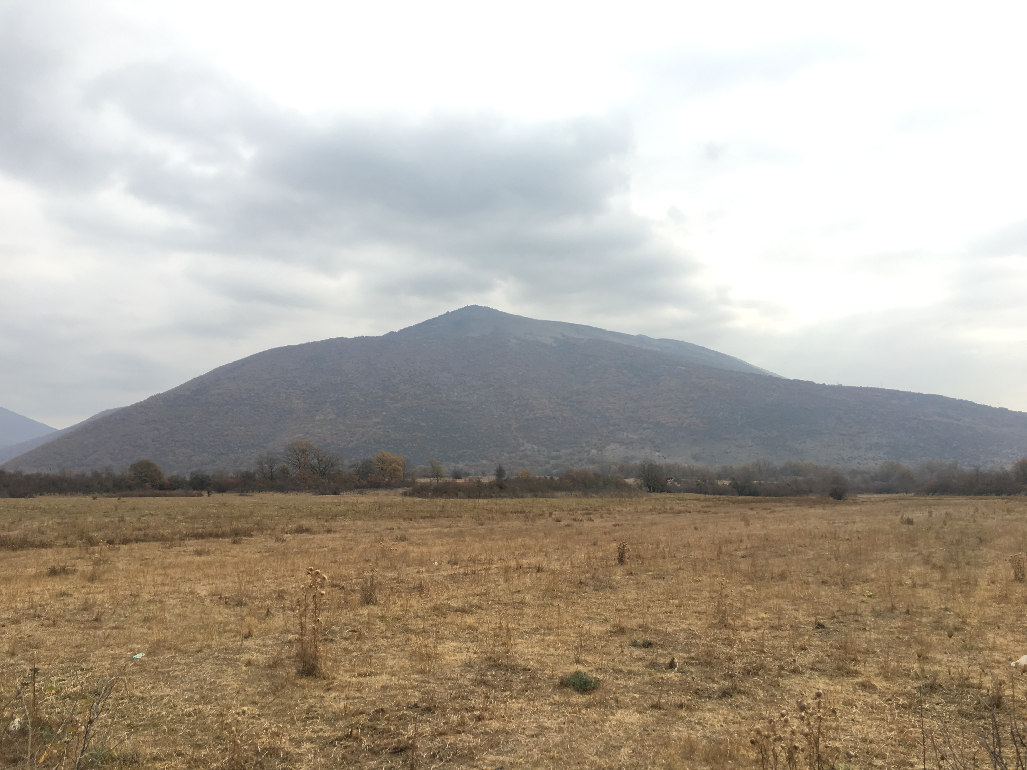 Wikiexpedition to Kopačka